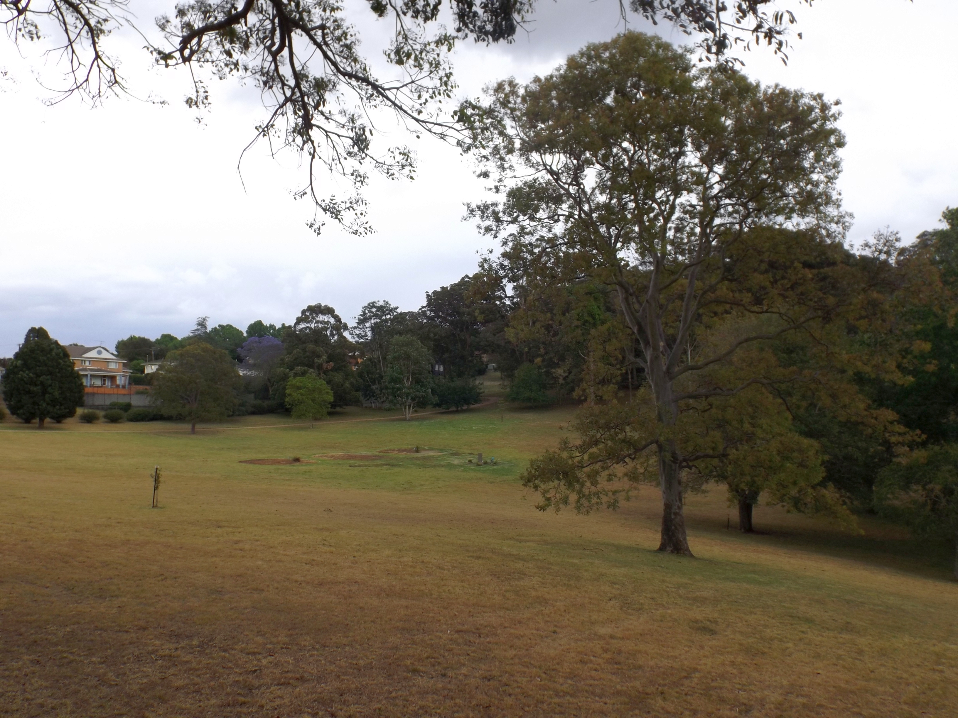 Photo of grassed areas at Boyce Gardens in Mount Lofty, Toowoomba, Queensland, Australia.